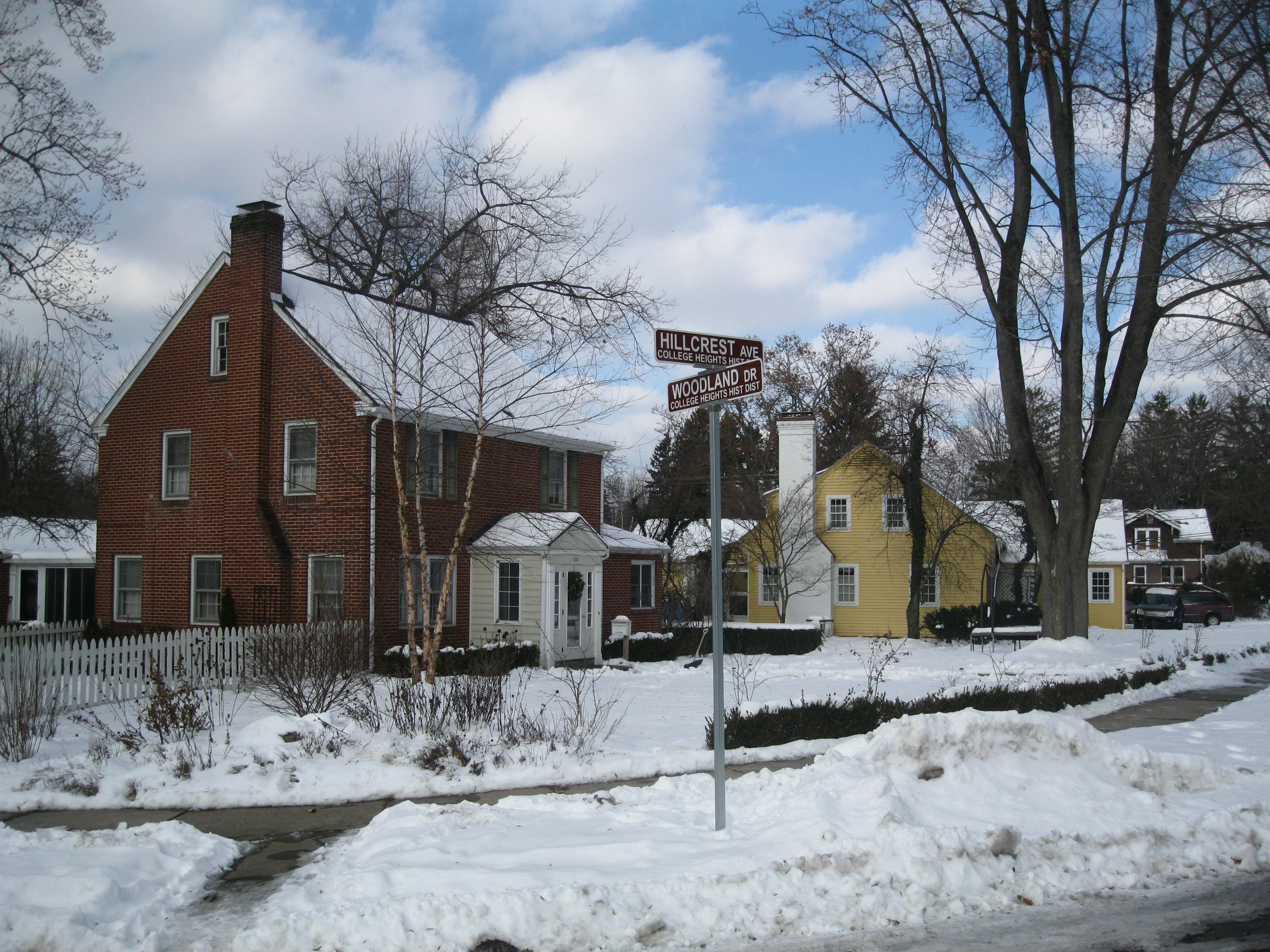 Houses at Hillcrest Avenue and Woodland Drive in the College Heights Historic District in the borough of State College, Centre County, Pennsylvania, USA. The district was added to the NRHP in 1995.